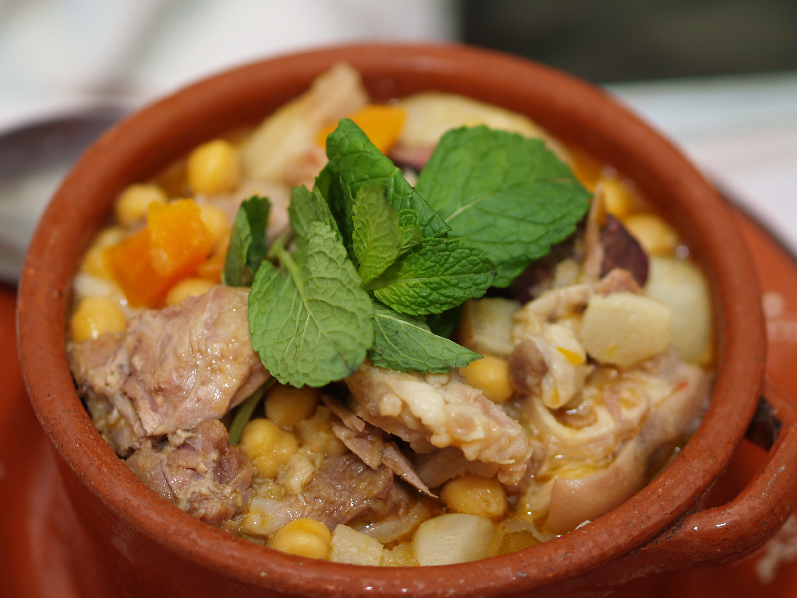 Cozido de grão, a typical portuguese dish, photographed in the city of Beja.